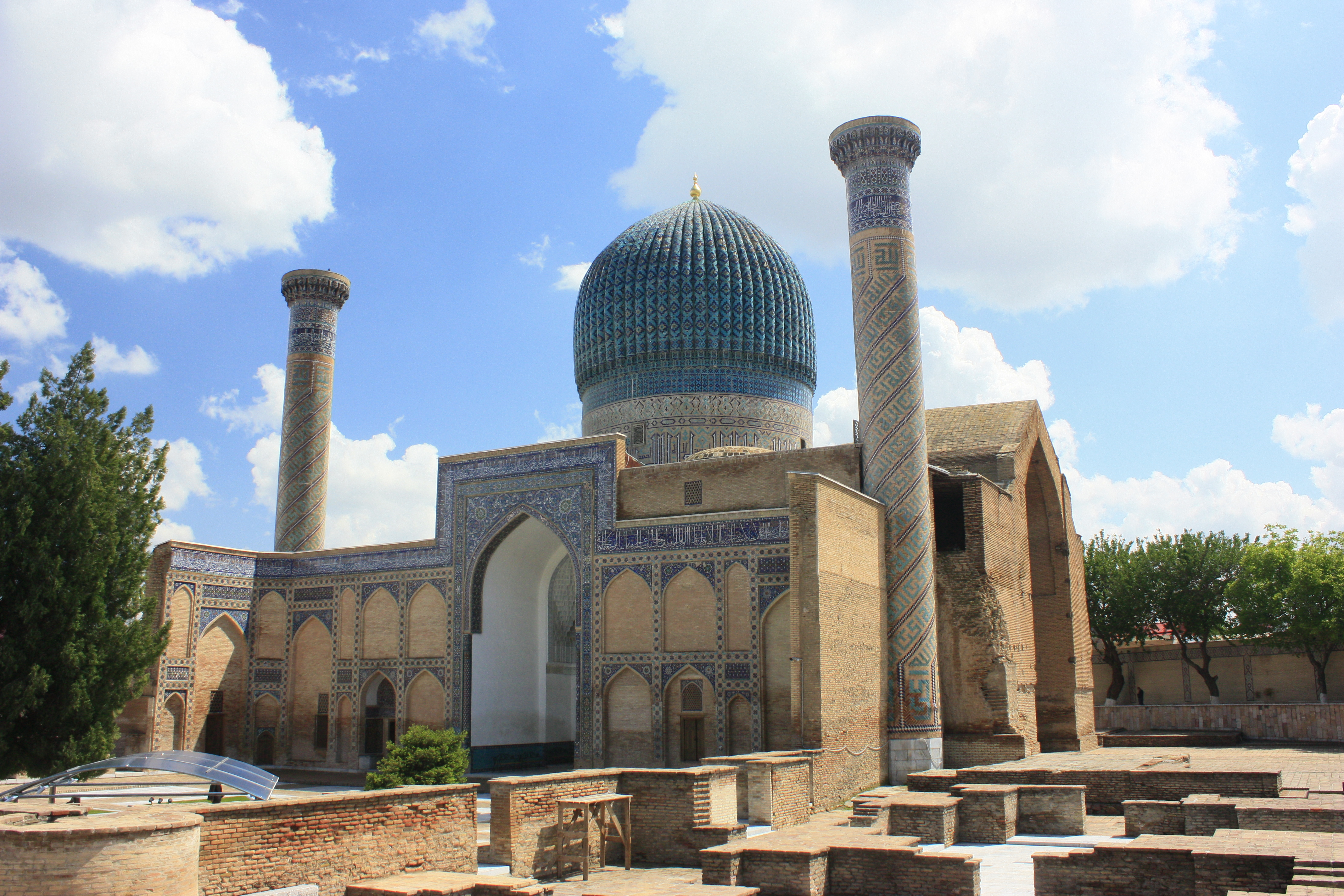 The shrine of Tamerlane in Samarkand, Uzbekistan